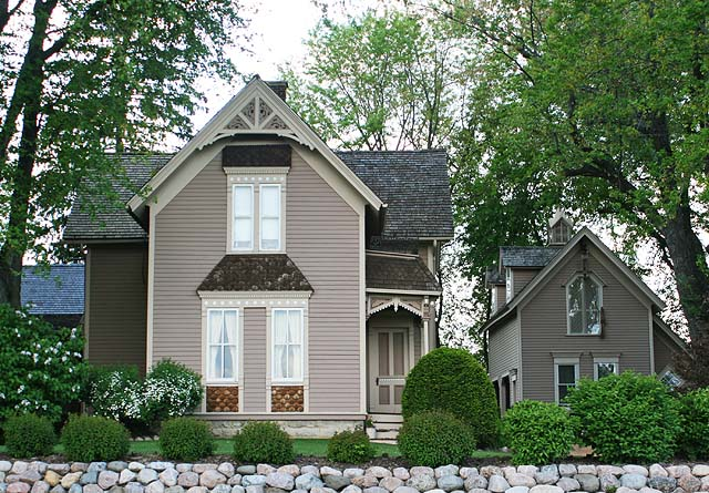 The John Reichert Farmhouse, a National Registered Historic Place, in Mequon, Wisconsin.